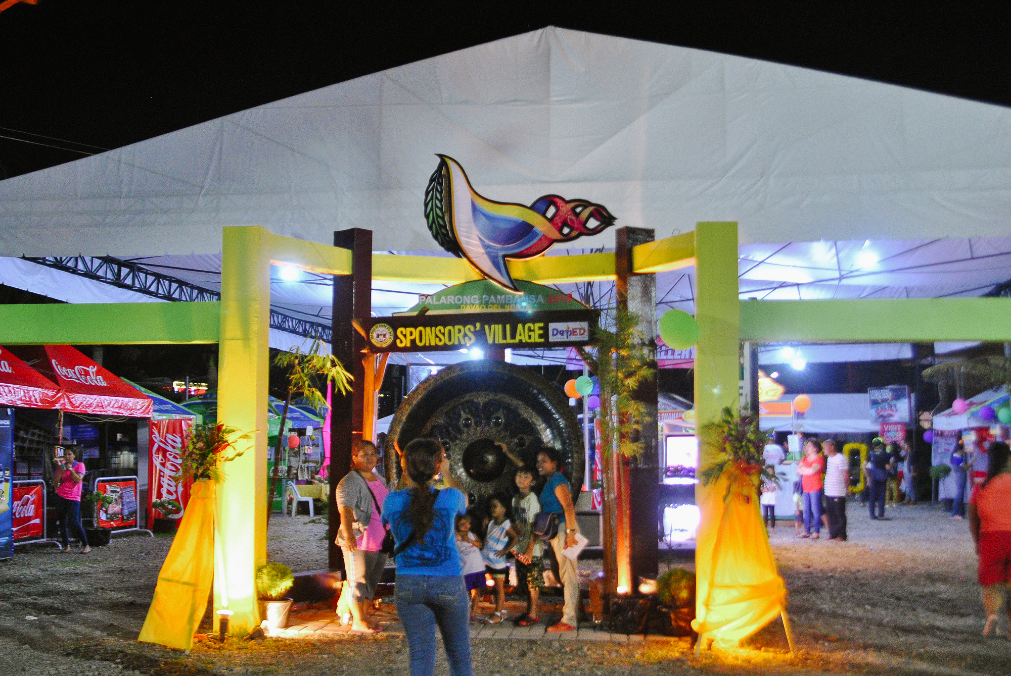 Sponsor's area for 2015 Palarong Pambansa main sponsors at Davao del Norte Sports and Tourism Complex